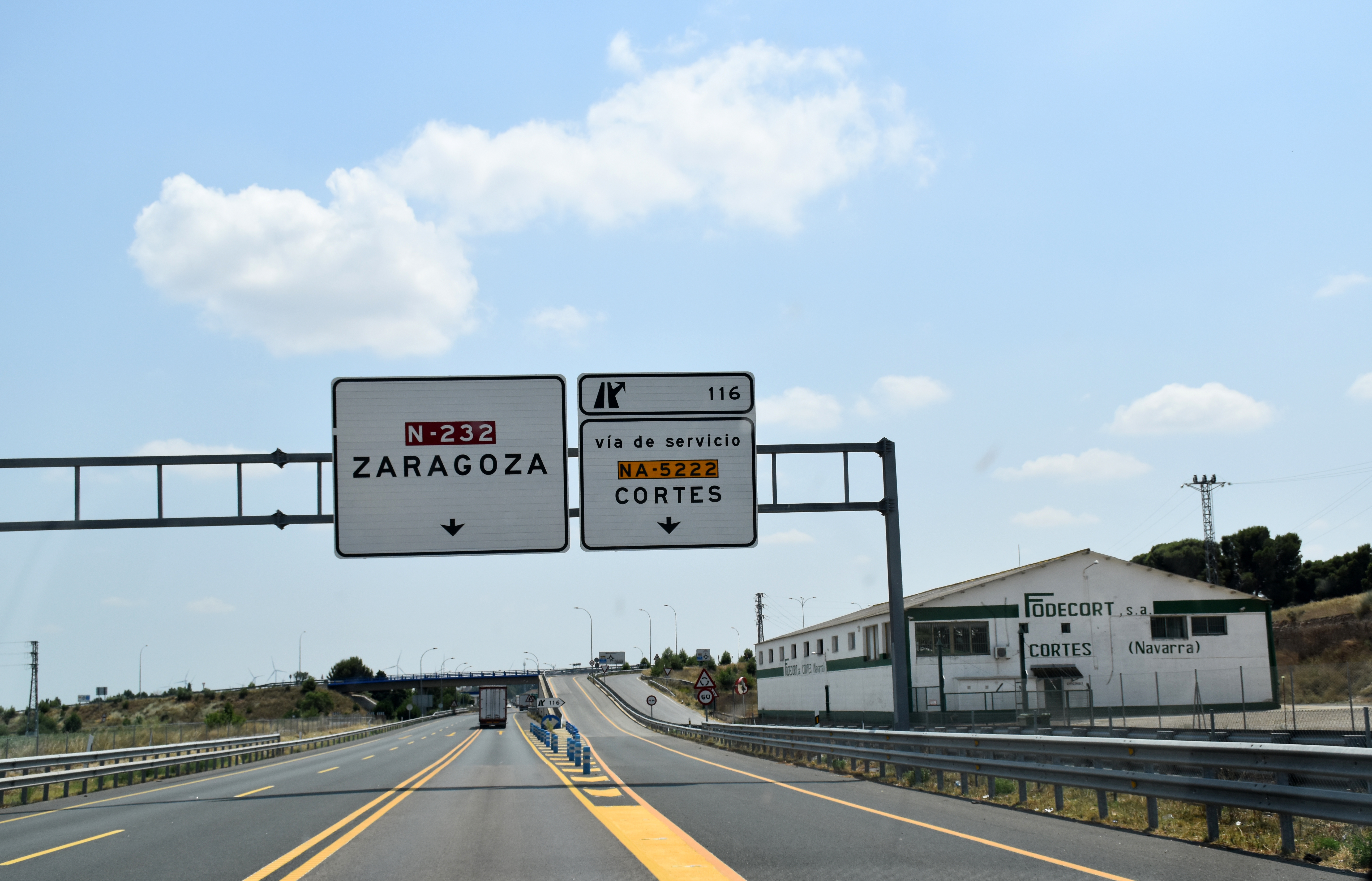 Feed mill of Fodecort SA at N-232 highway near town of Cortes, Navarre.